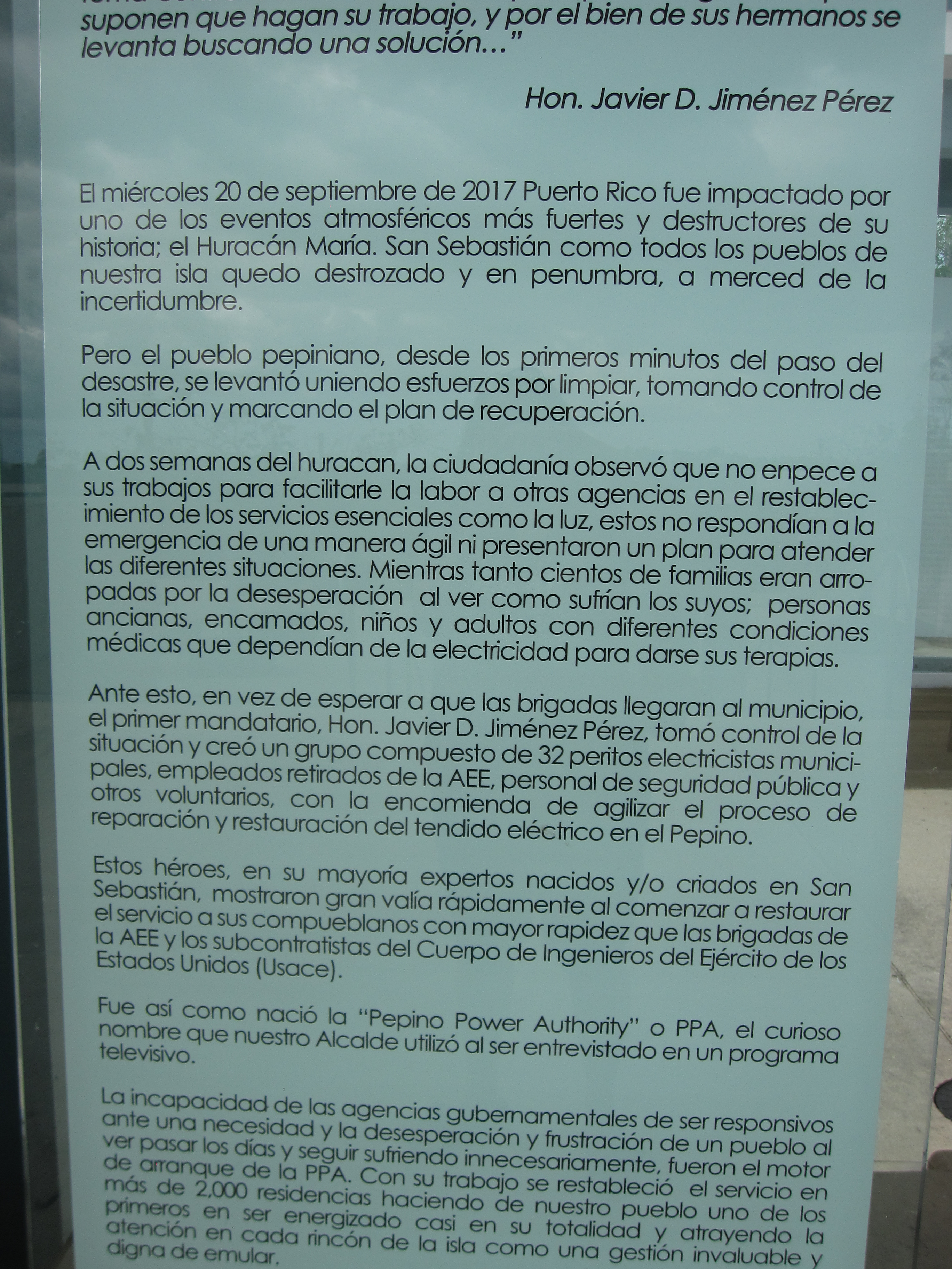 Pepino Power Authority, San Sebastián, Puerto Rico - ad hoc team of people that came together to restore the power to San Sebastián in Puerto Rico after Hurricane Maria in 2017